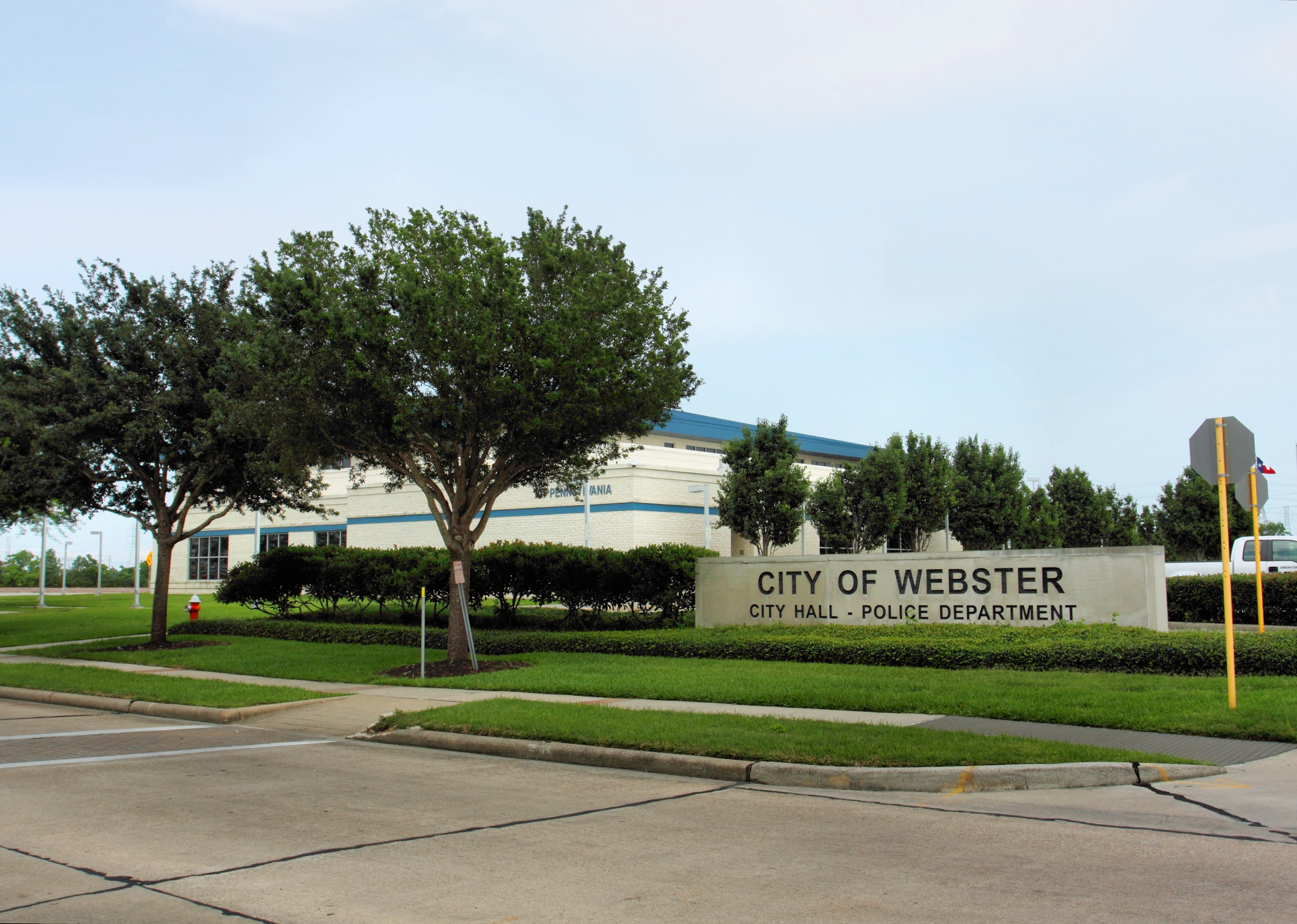 City Hall and Police Station - Webster, Texas, USA